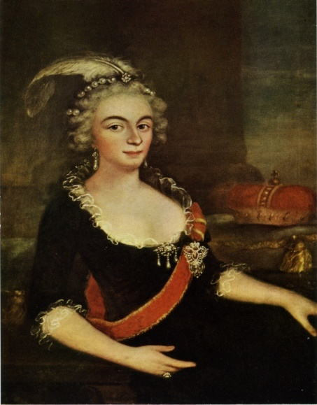 Portrait of Friederike von Bretzenheim (1771-1816), daughter of Charles Theodore, Elector of Bavaria and Josepha von Heydeck, 1757–1771 abbesse of secular Lindau canonesse abbey